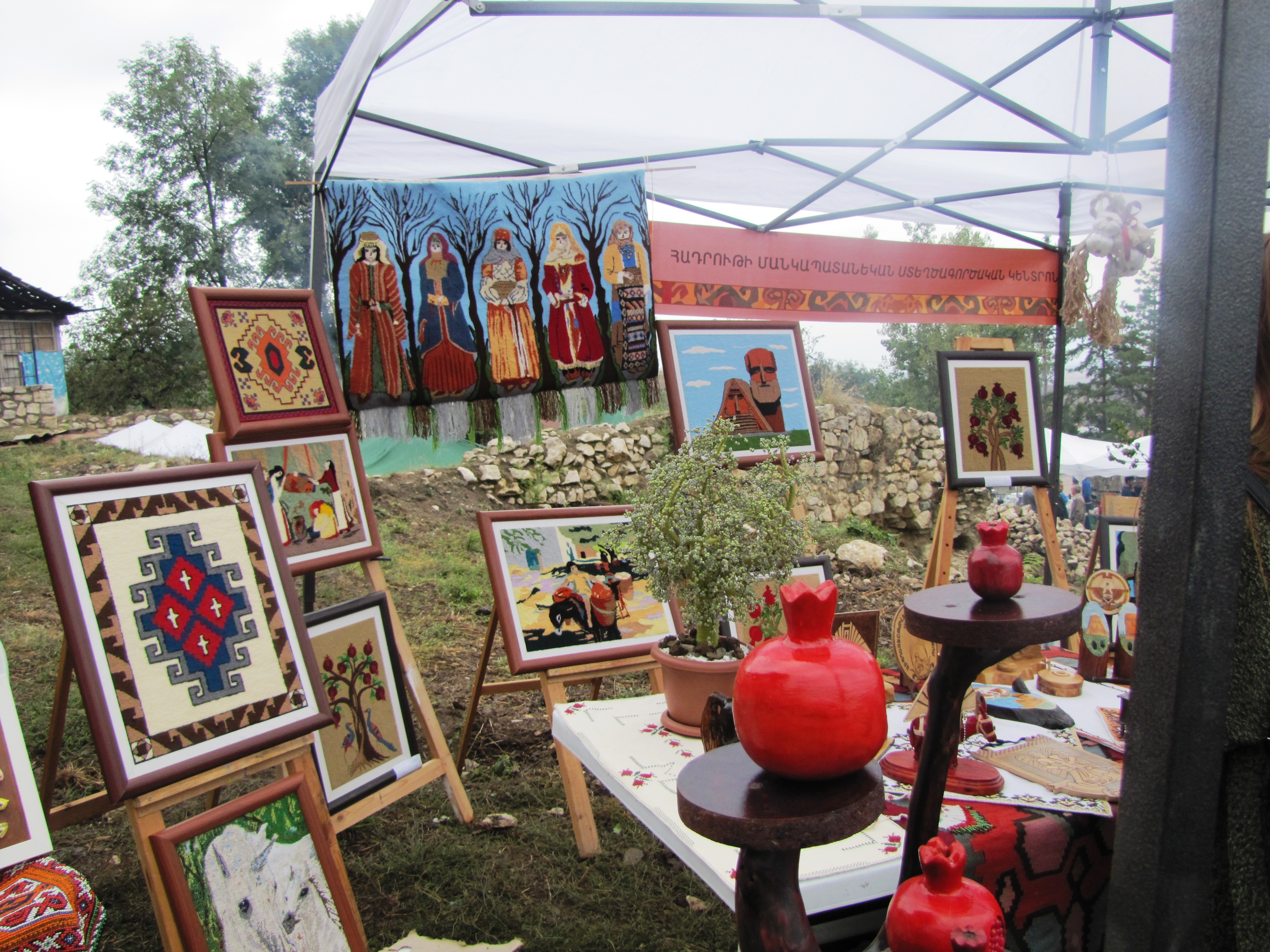 Handmade